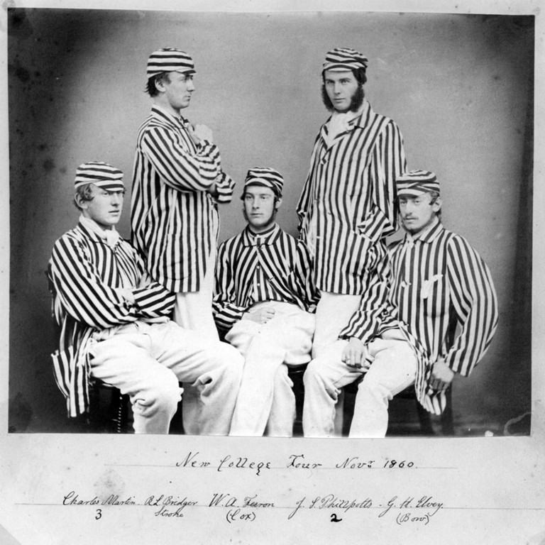 New College, Oxford IV in blazers - photograph - 1860